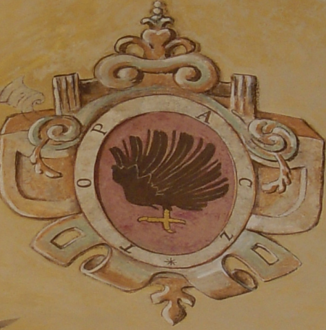 Topacz coat of arms (Kopacz) in Baranow-Sandomierski castle. Detail of Image:Baranów Sandomierski - castle 03.JPG full resolution, by User:Piotrus and tagged with the same “self2.GFDL.cc-by-sa-2.5,2.0,1.0” license.